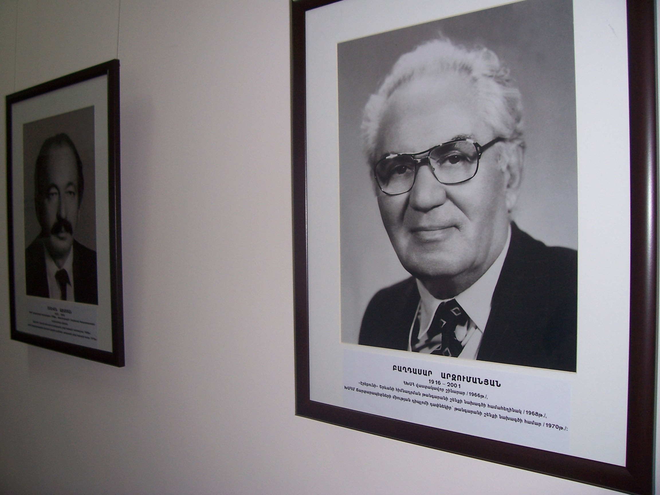 Photo of Baghdasar Arzoumanian in Erebuni Museum